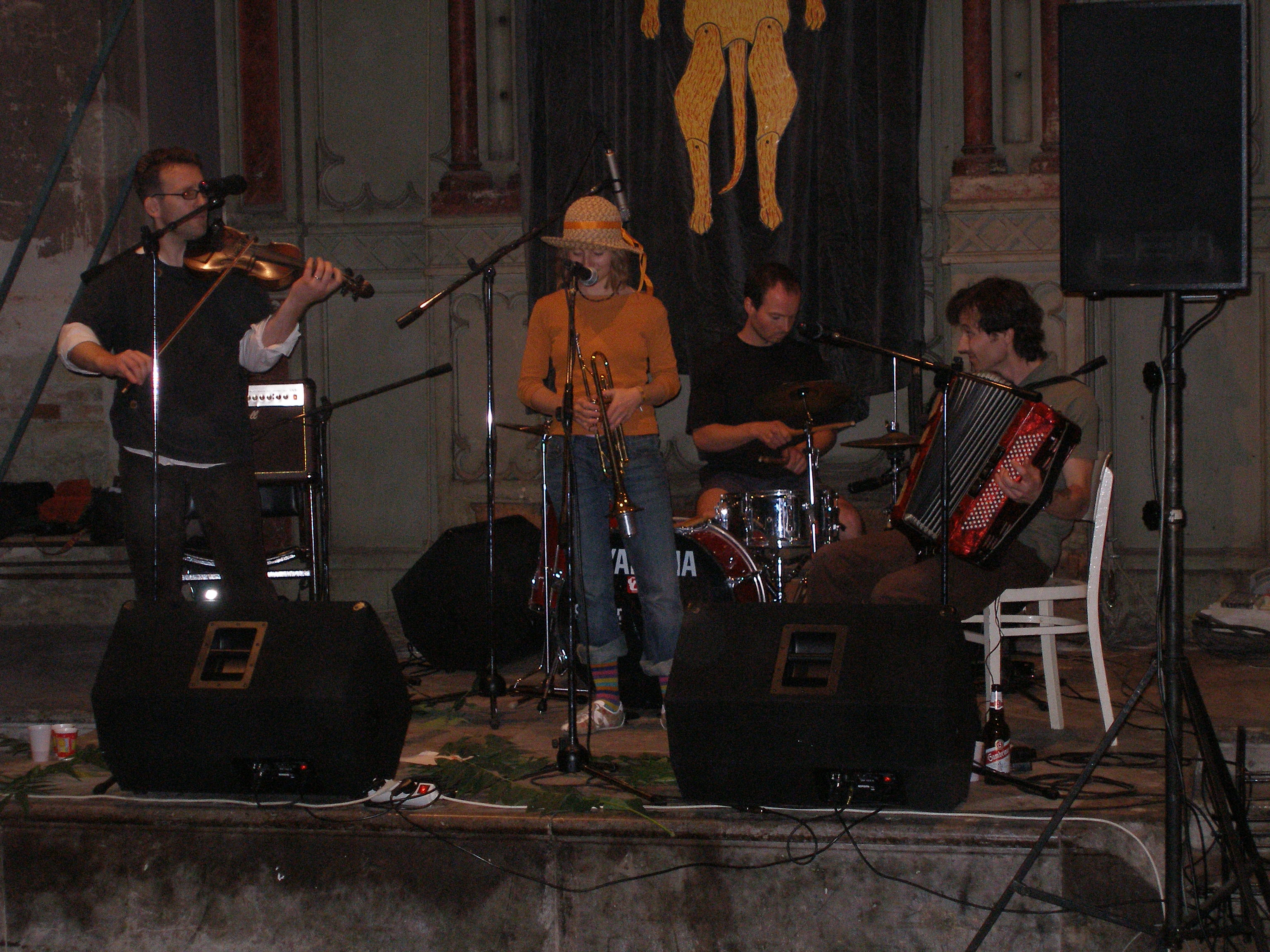 Pláče kočka